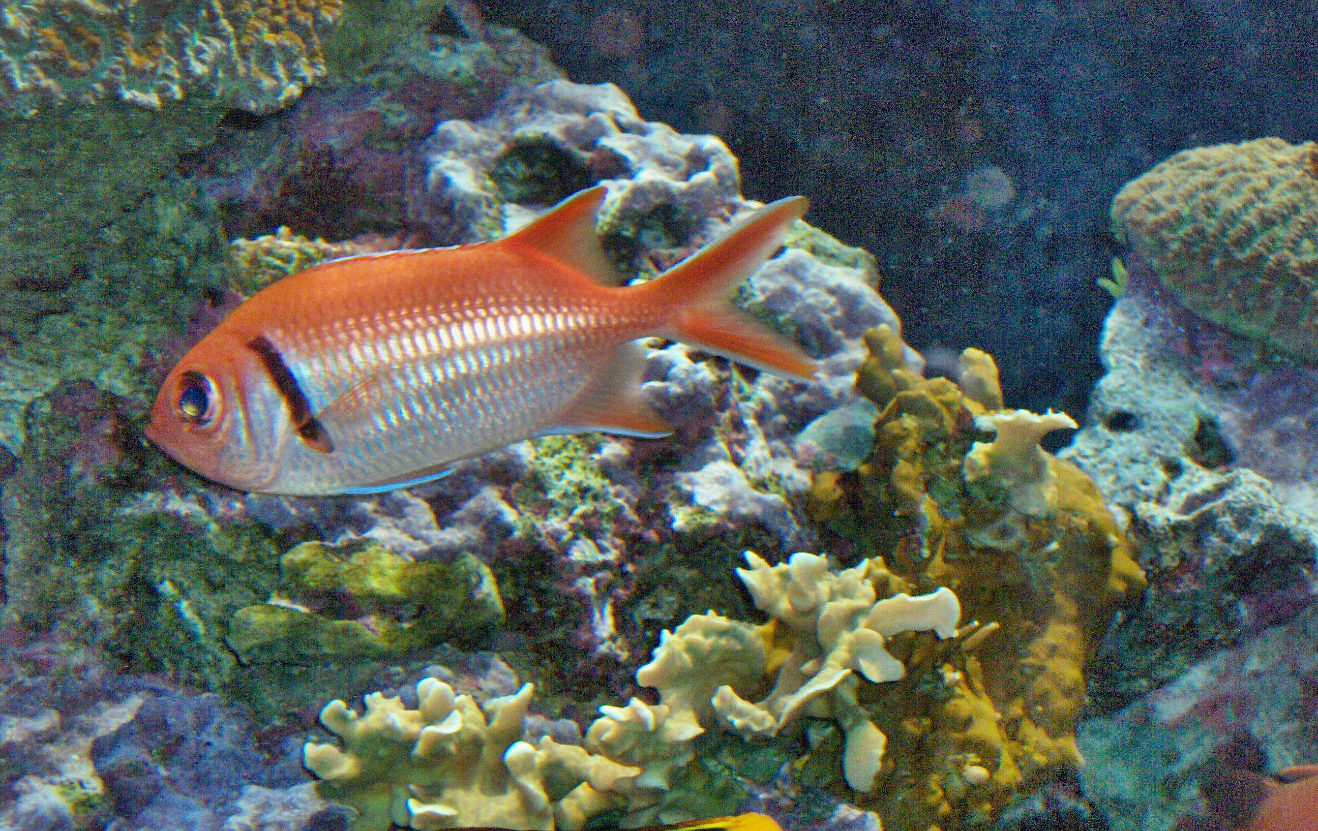 Blackbar soldierfish (Myripristis jacobus); Musée Océanographique de Monaco